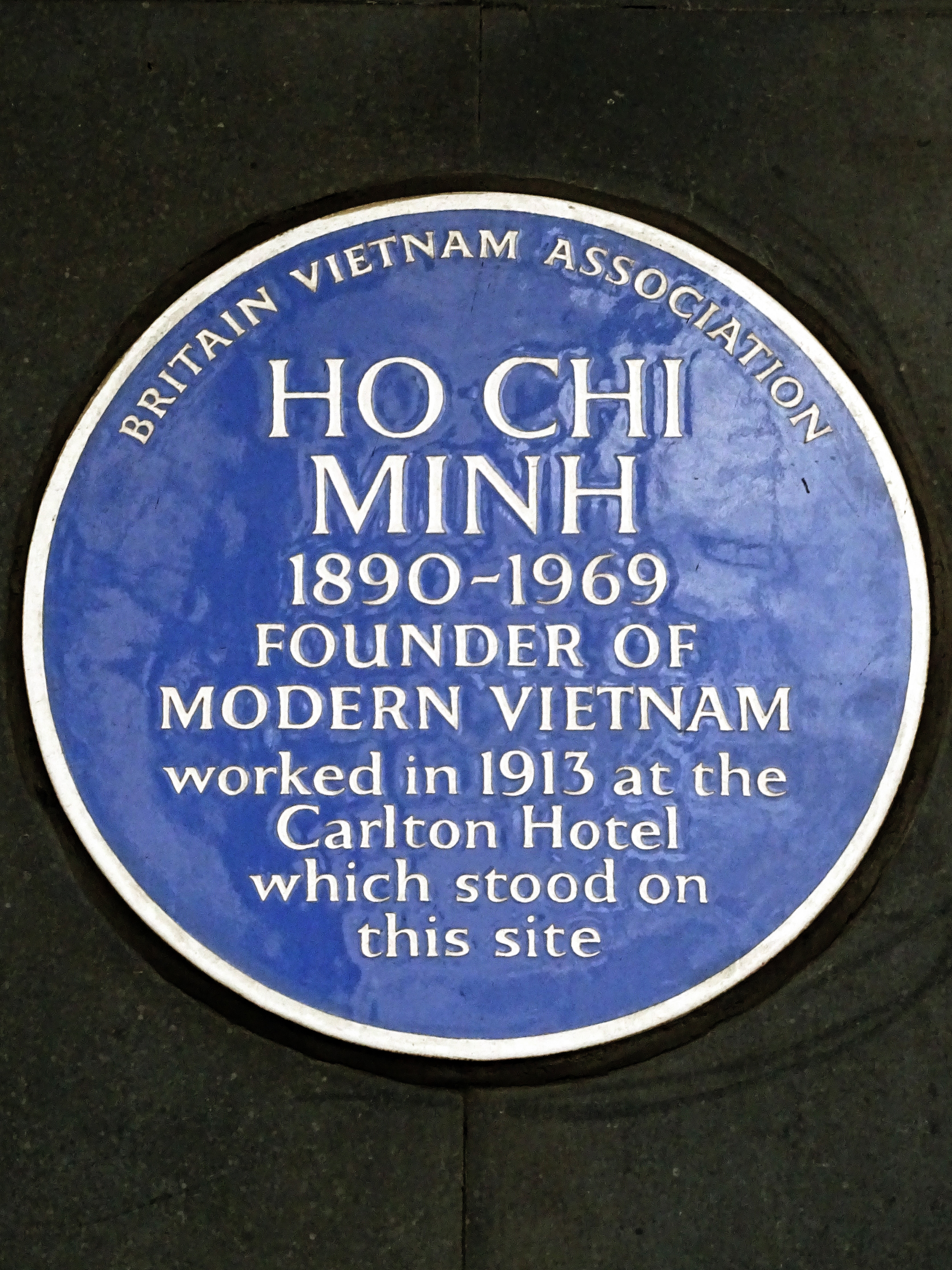 Ho Chi Minh 1890-1969 founder of modern Vietnam worked in 1913 at the Carlton Hotel which stood on this site. Blue plaque erected by Britain Vietnam Association at New Zealand House, 80 Haymarket, St. James's, London SW1Y 4TE.